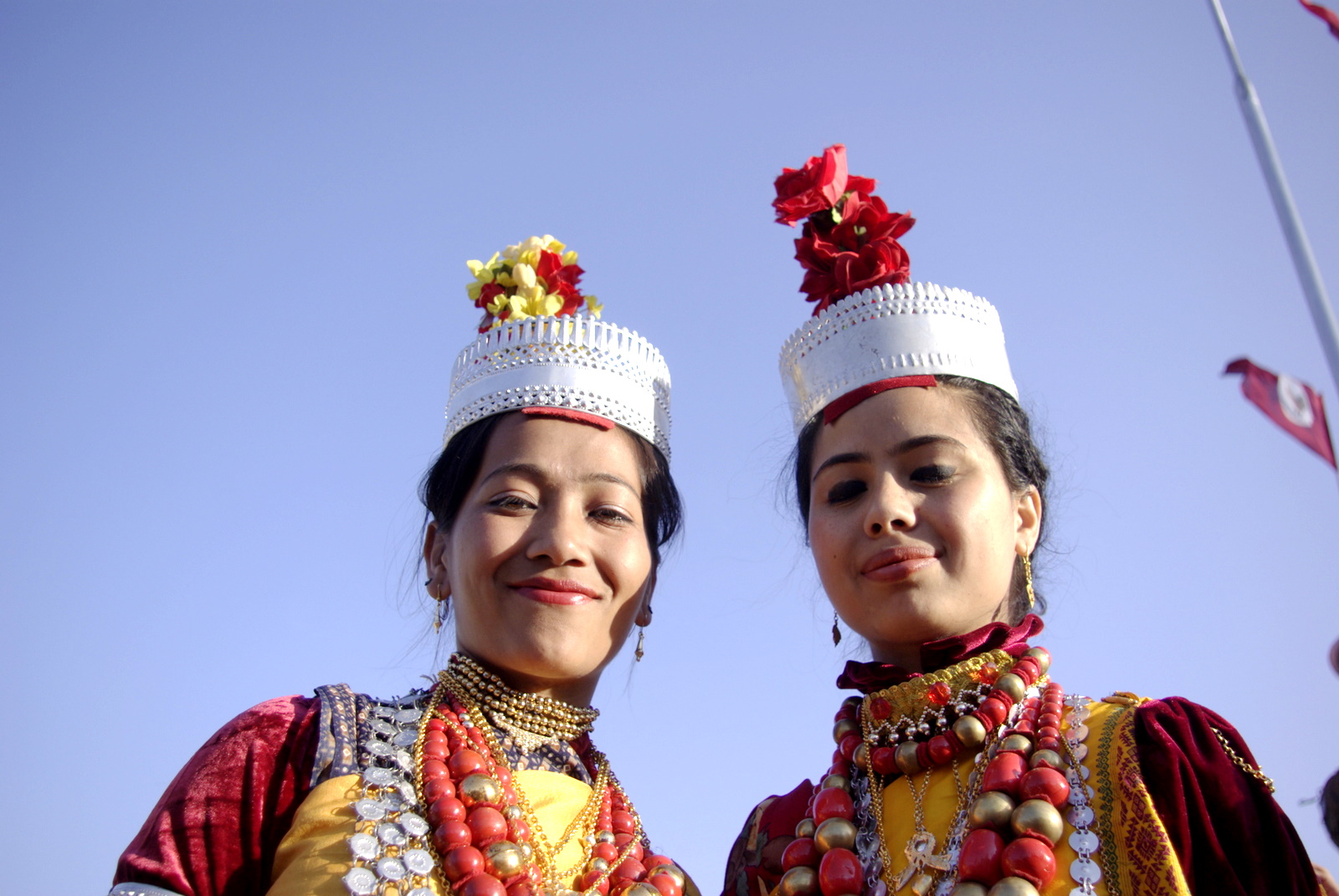 Two Khasi girls in traditional dress at the Shad Suk Mynsiem dance, Shillong, Meghalaya, India